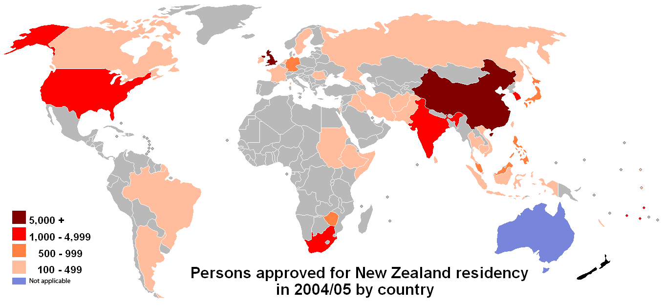 Persons acquiring New Zealand residency in 2004-05 (fy) by country of citizenship; ref